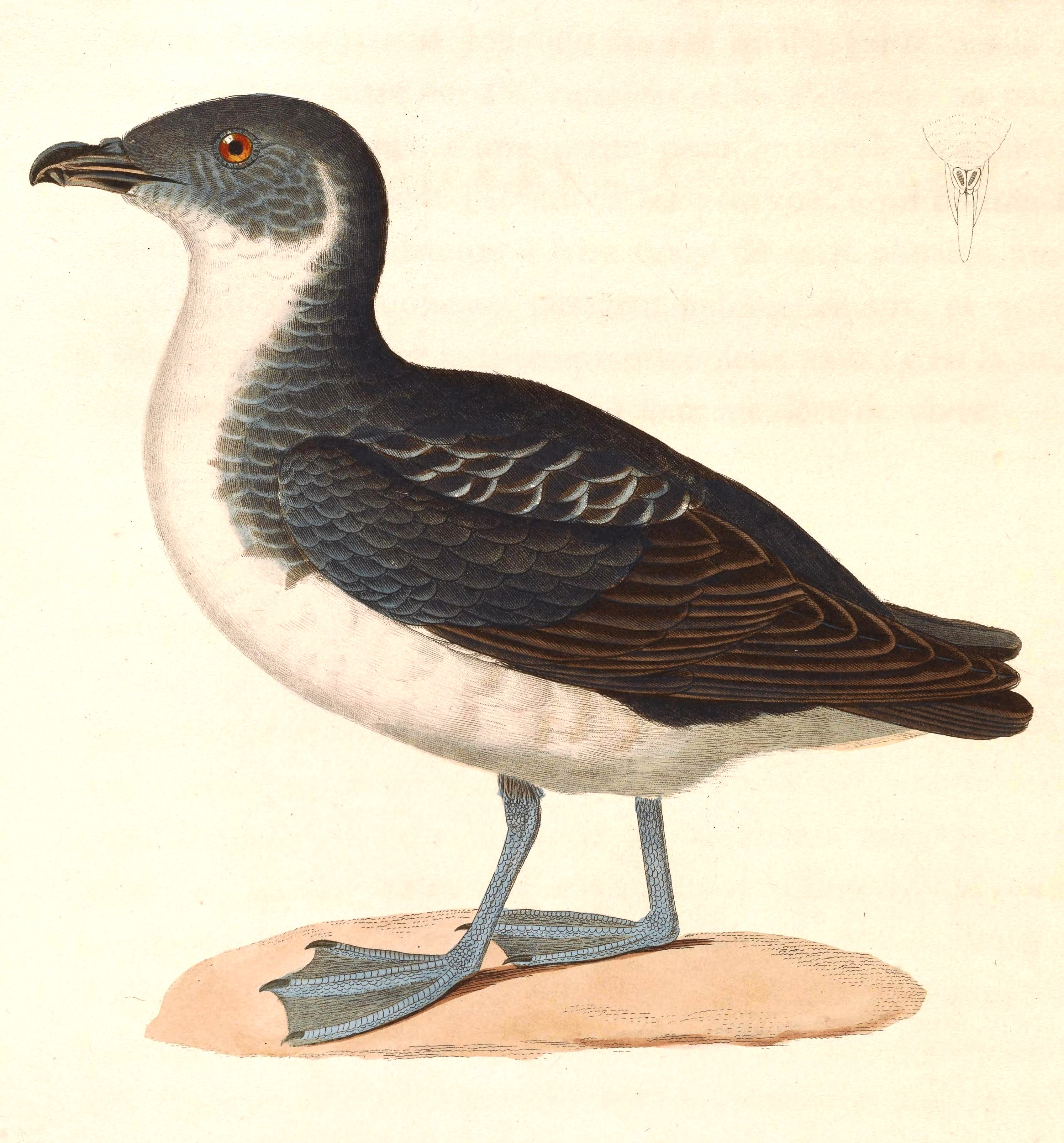 « Haladroma berardi » = Pelecanoides urinatrix berard (Subspecies of Common Diving Petrel)